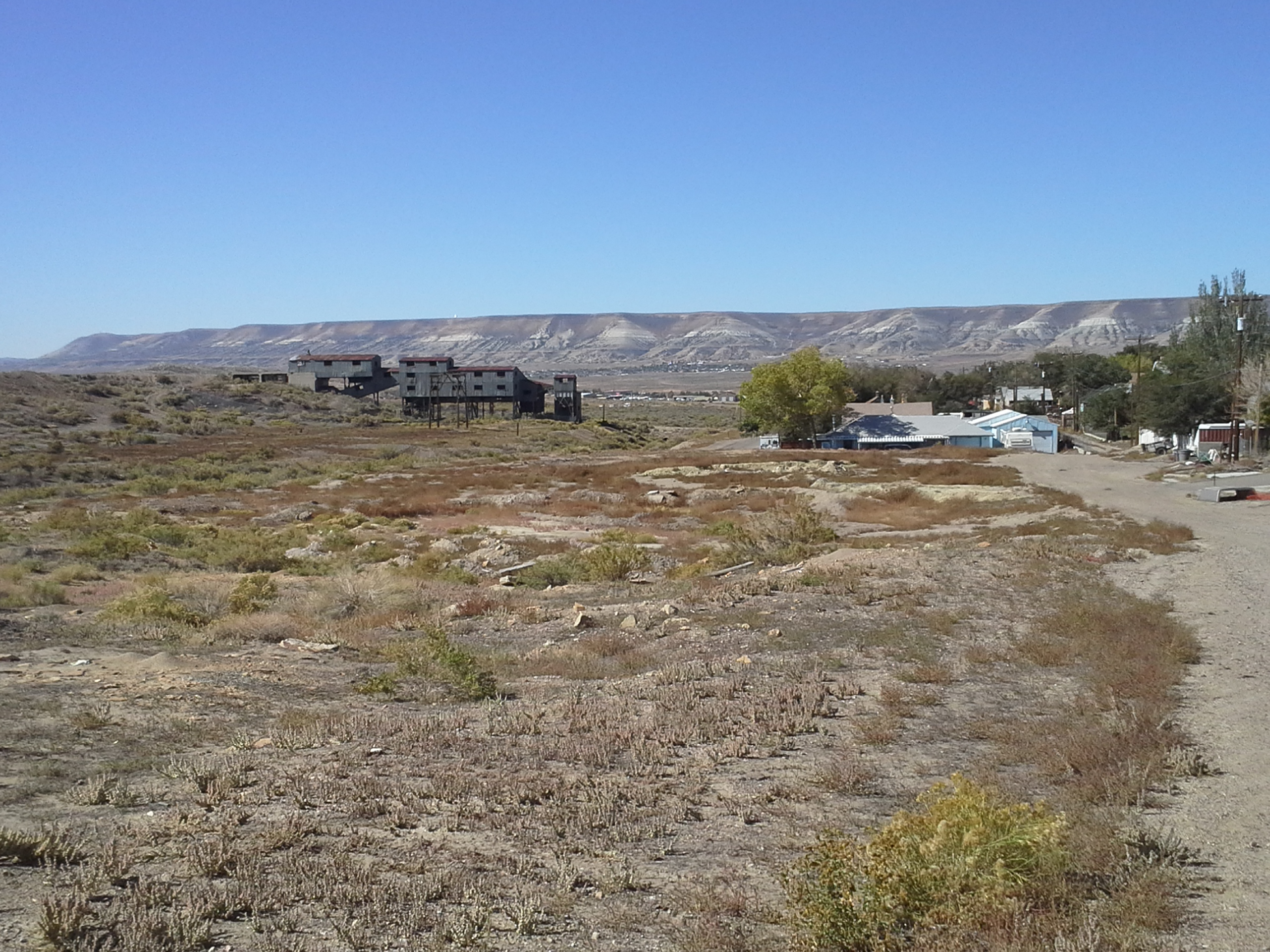 Reliance Tipple, East of U.S. Route 187 Reliance